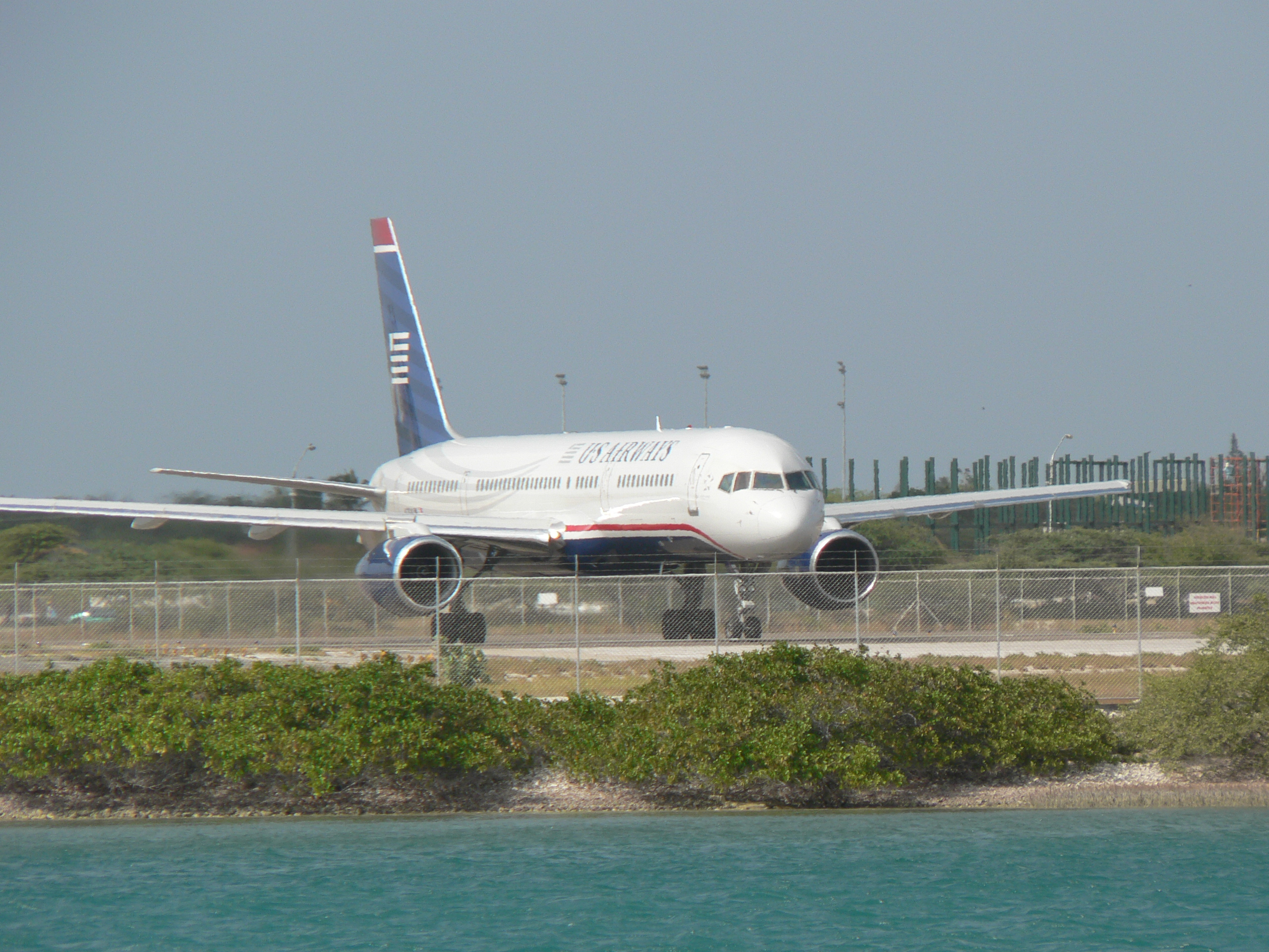 US Airways Boeing 757